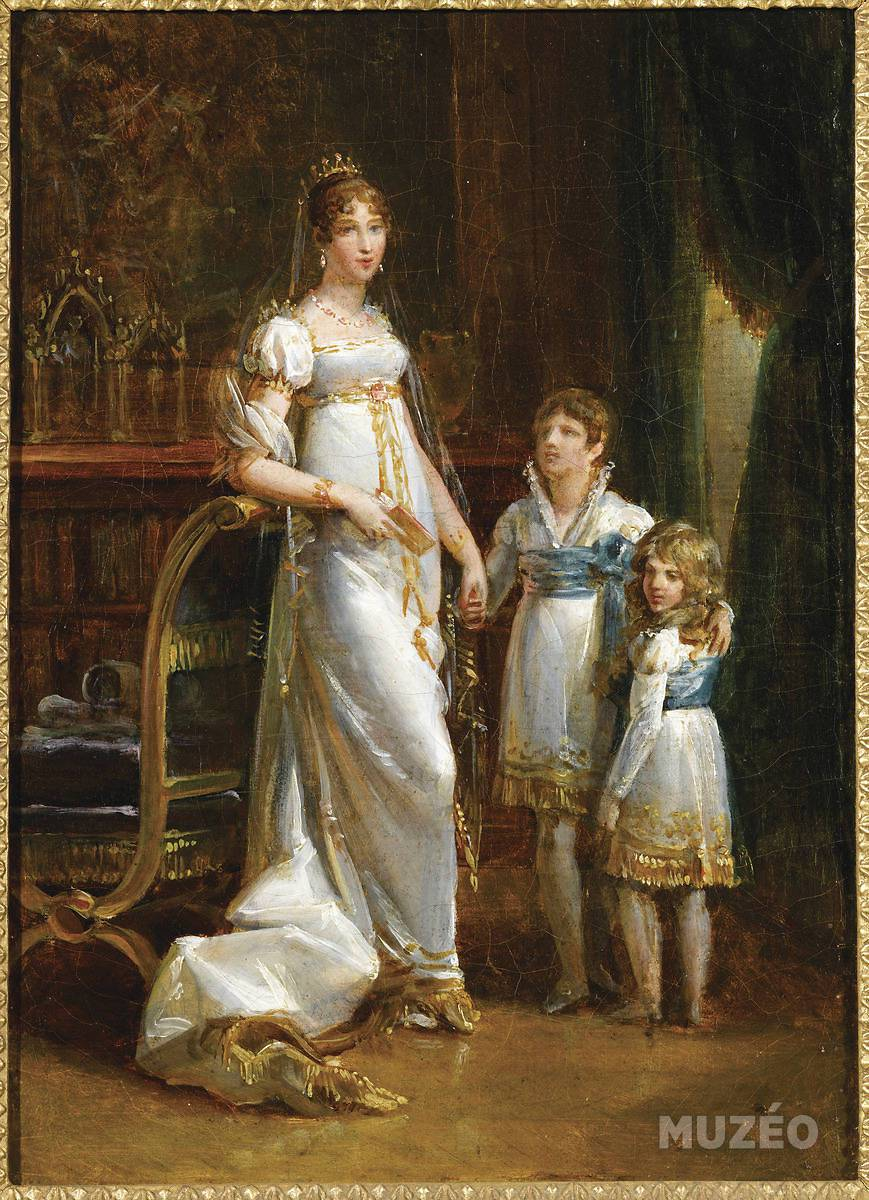 La reine Hortense et ses deux fils, Napoléon-Louis (1804-1831) et Louis-Napoléon (1808-1873)